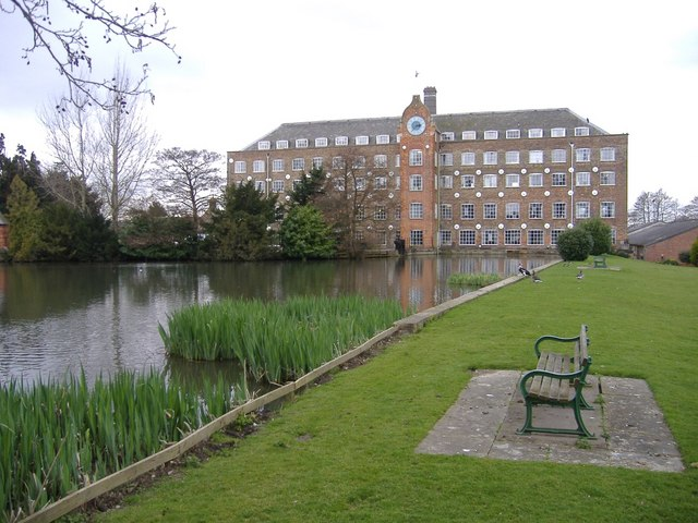 Renishaw PLC, New Mills This former mill houses the HQ of this manufacturing company. Renishaw produces metrology and spectroscopy equipment.